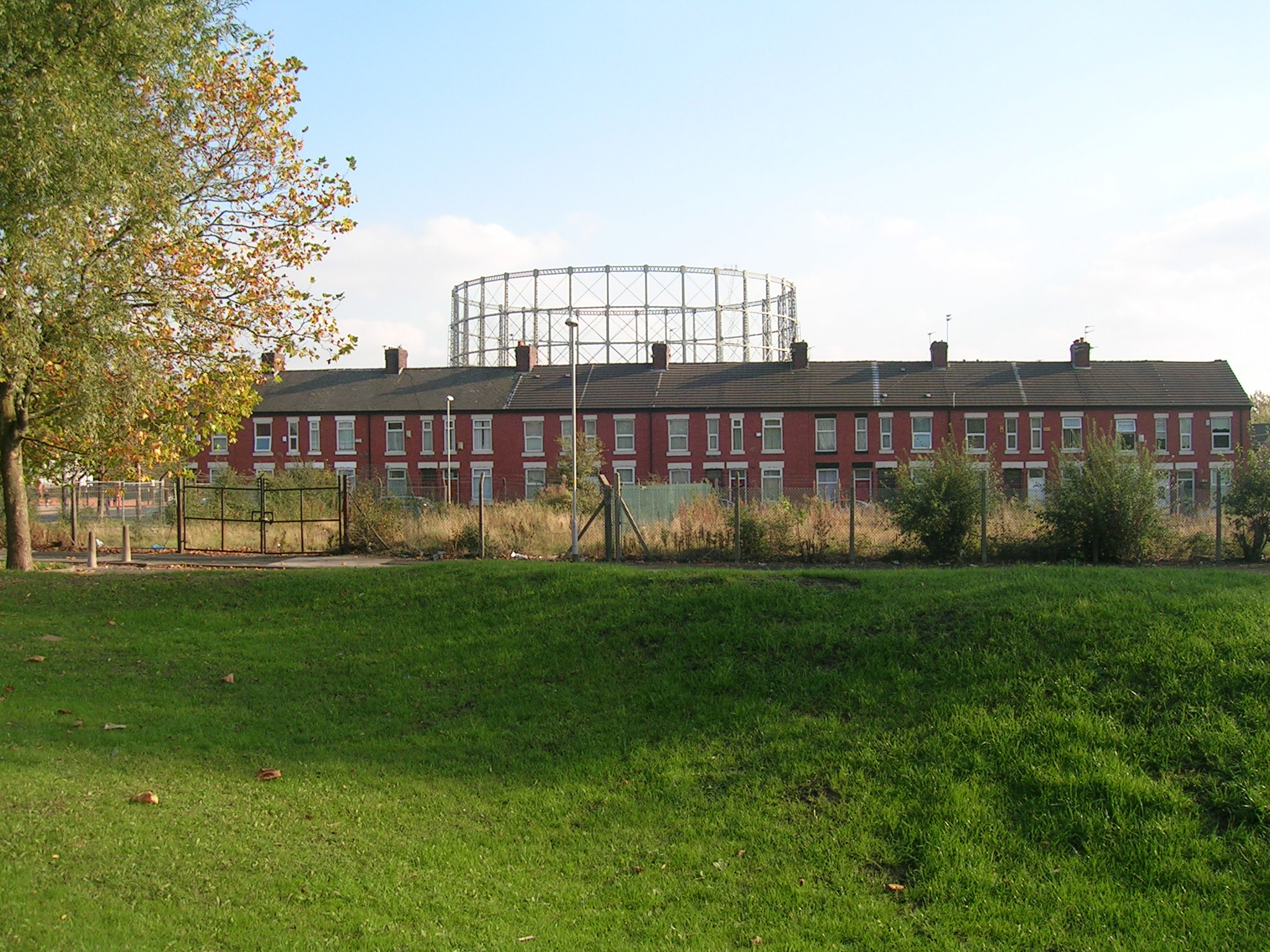 Terraced housing in Miles Platting, Manchester, England.